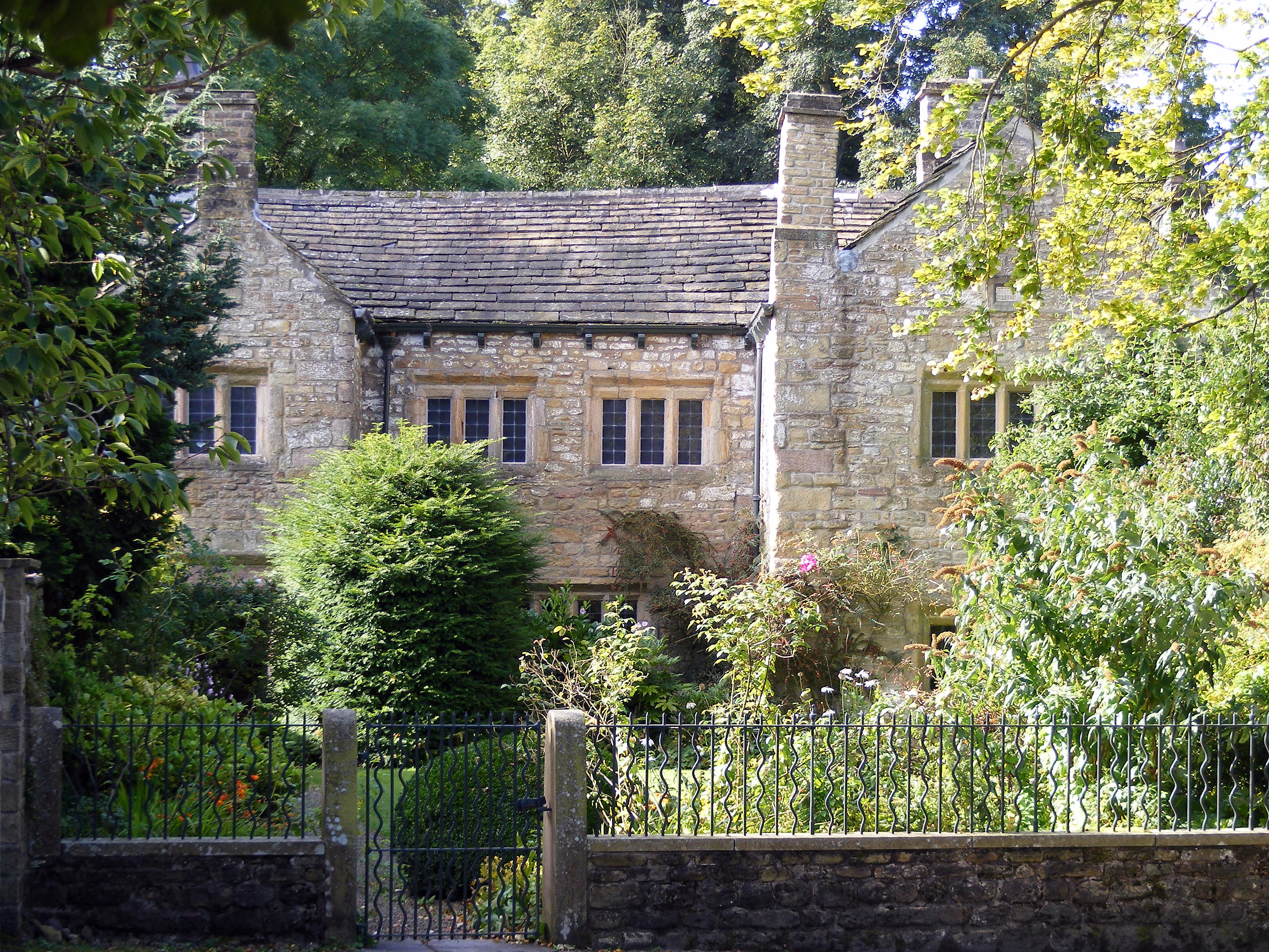 A View of Pendle Heritage centre